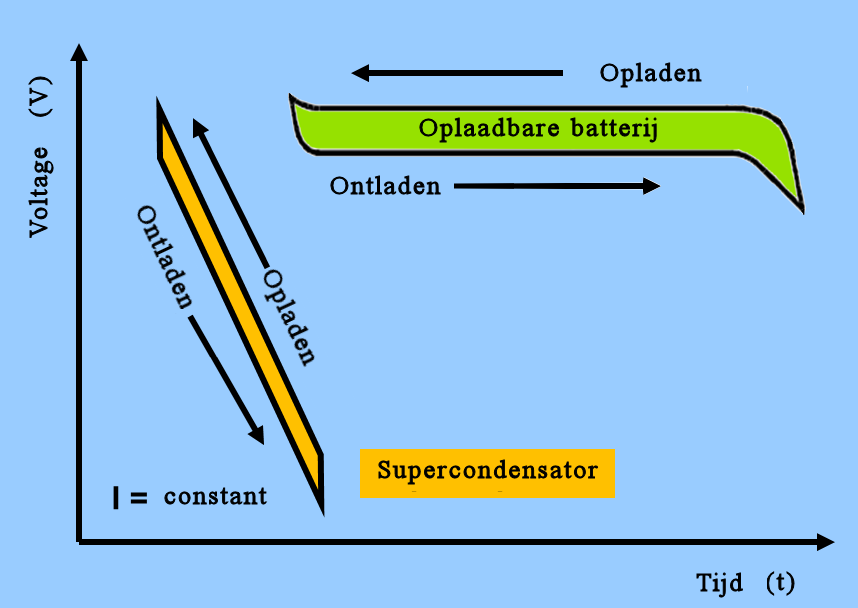 Different charge /discharge behavior of supercapacitors and rechargeable batteries (now with Dutch txt)